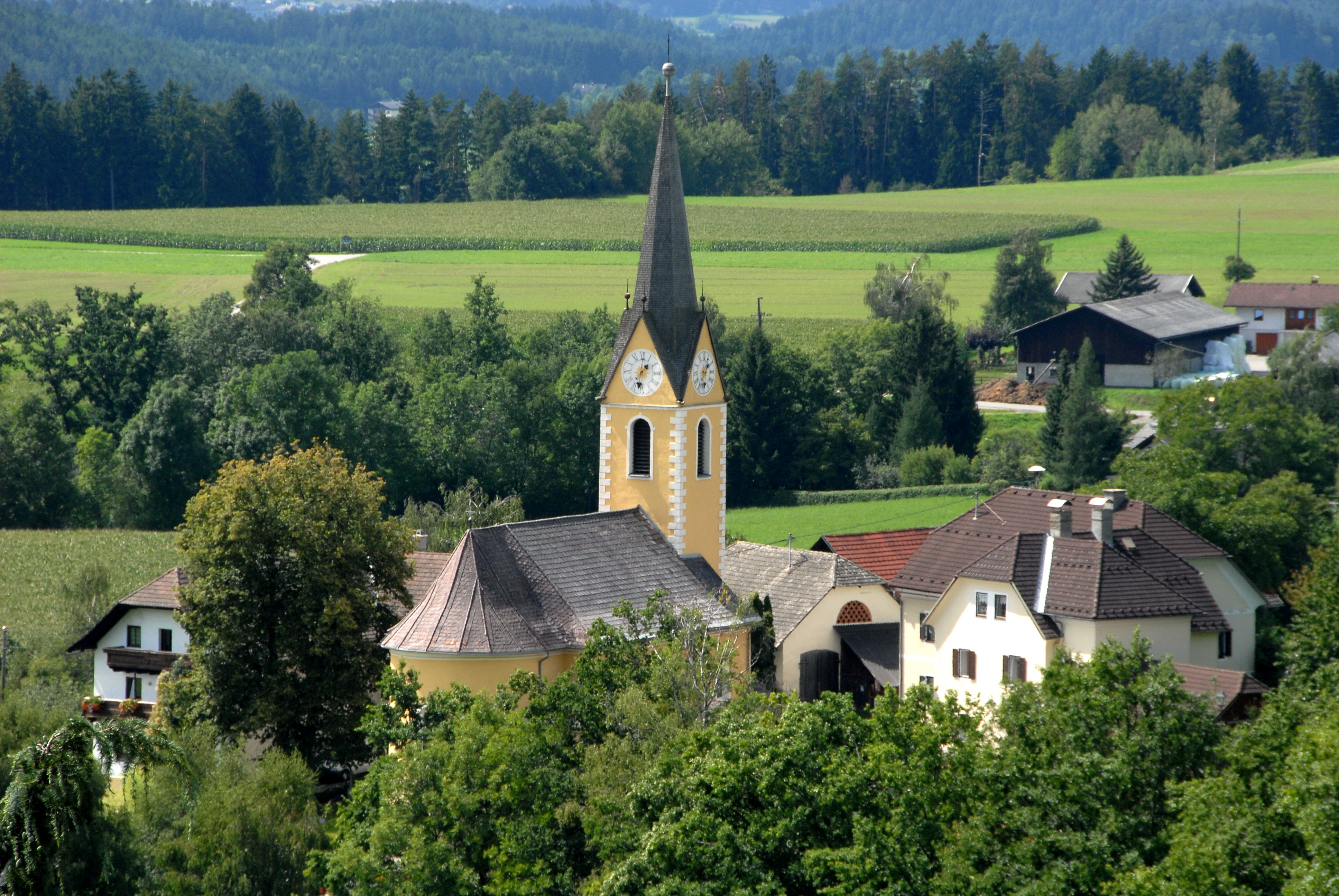 Protestant parish church at Unterhaus, municipality Seeboden, district Spittal an der Drau, Carinthia / Austria / EU